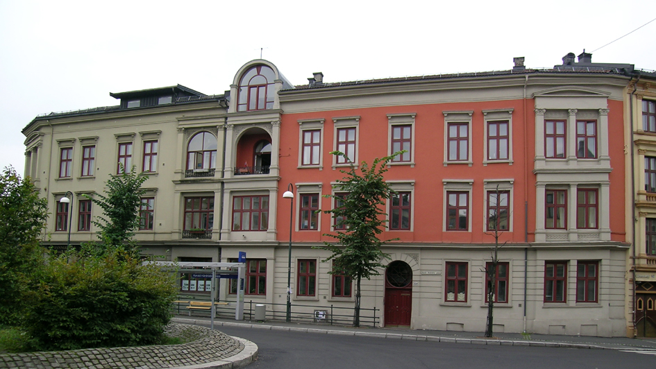 Schweigårds gate 68-70, Oslo. Apartment blocks erected 1886. Architect: Thore Christiansen.